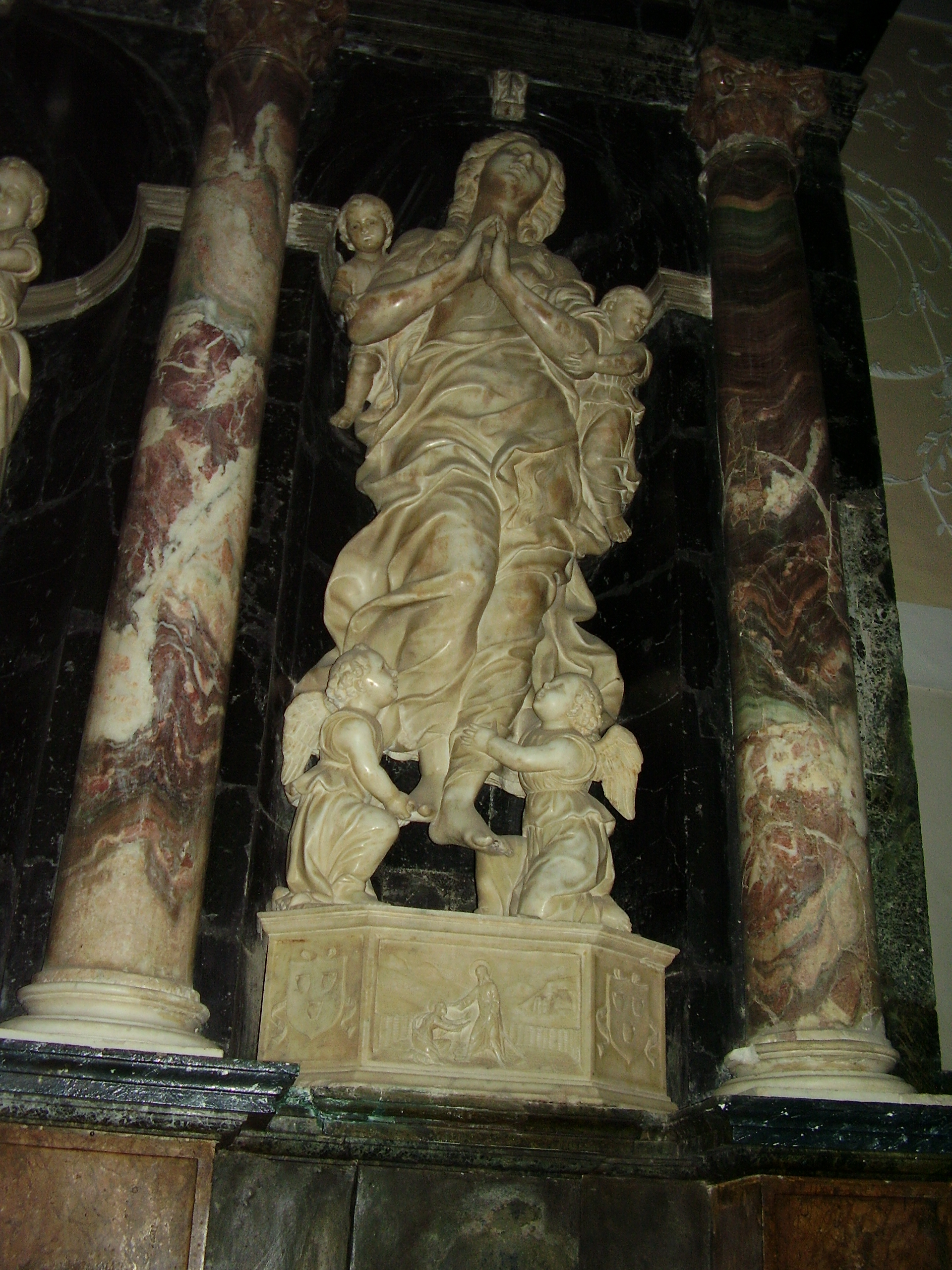 sculpture of Antonello Gagini, Maria Maddalena, Cathedral of Vibo Valentia